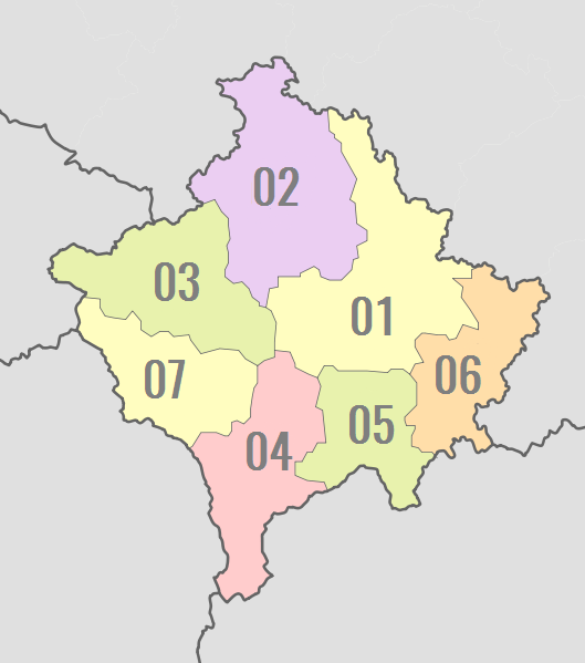 Administrative Divisions of Kosovo and Vehicle registration plate.